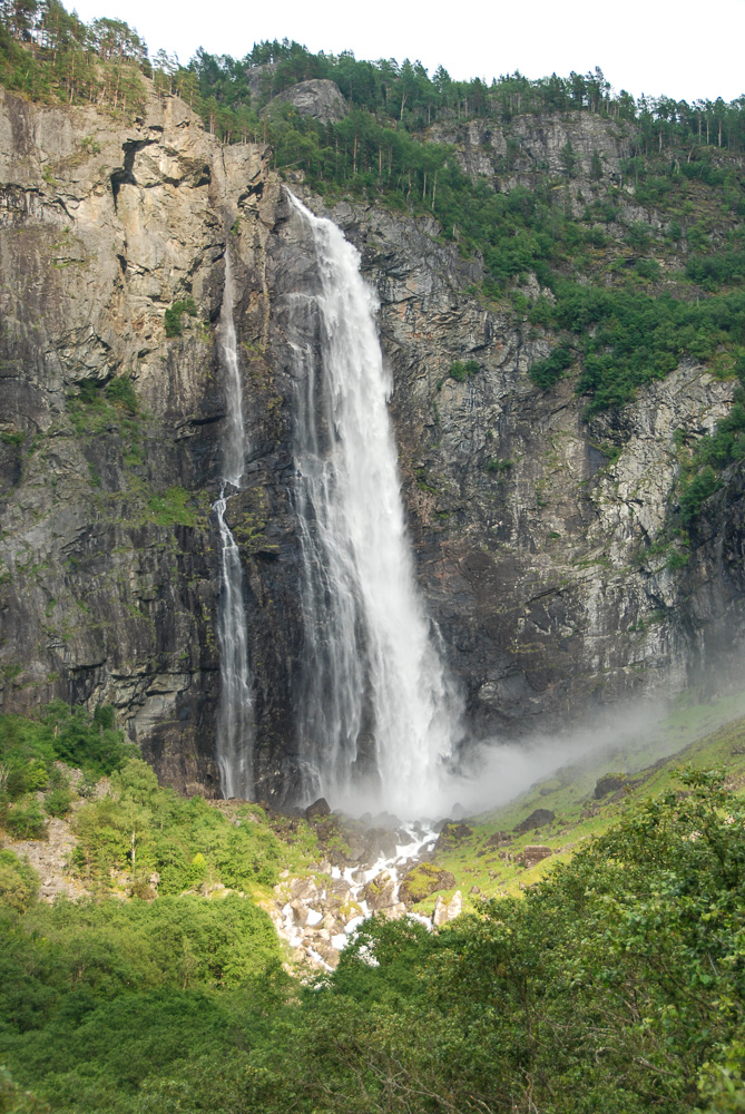 Feigefossen